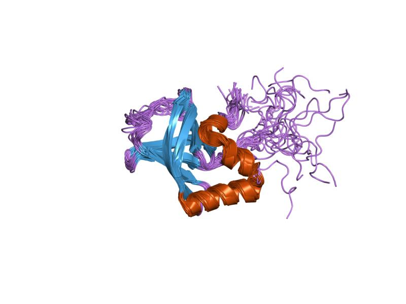 Cartoon representation of the molecular structure of protein registered with 1ywu code.